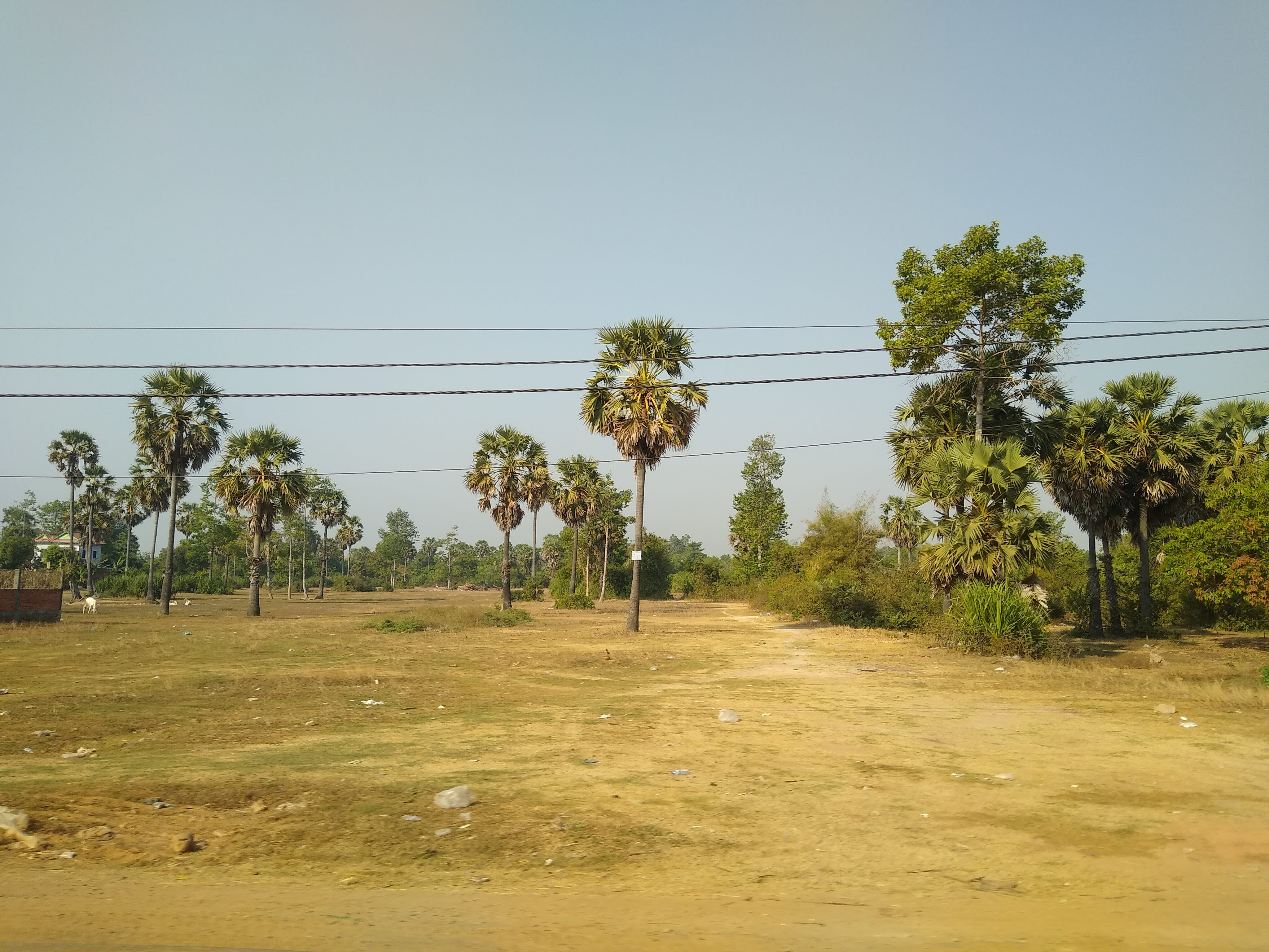 Countryside in Cheung Prey District, Cambodia, seen from a moving vehicle on Route 6.